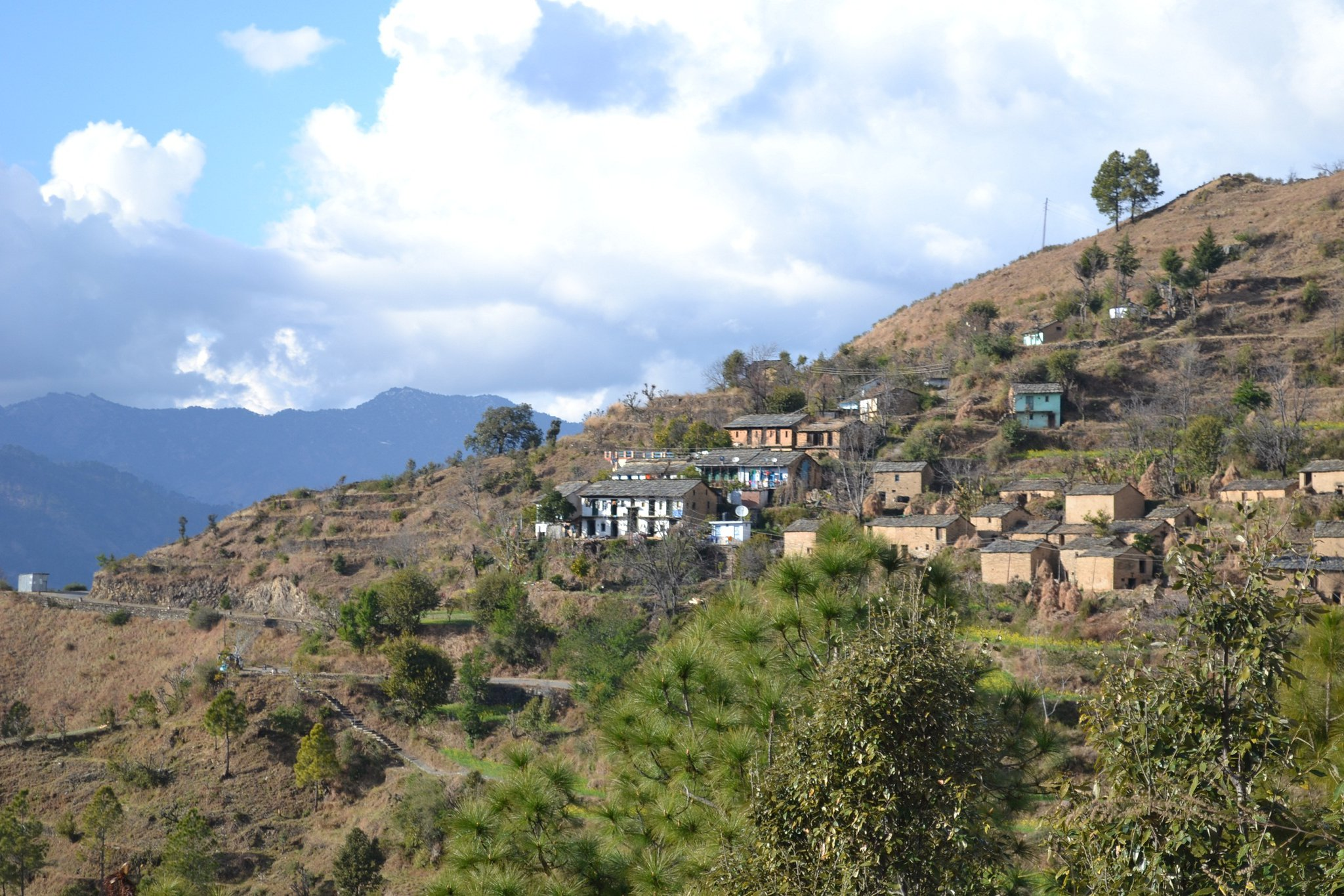 Matkunda (Uttarakhand, India). Picture taken by me on the way to the village.